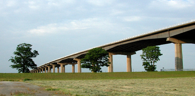 M62 Ouse Bridge, East Riding of Yorkshire, England.